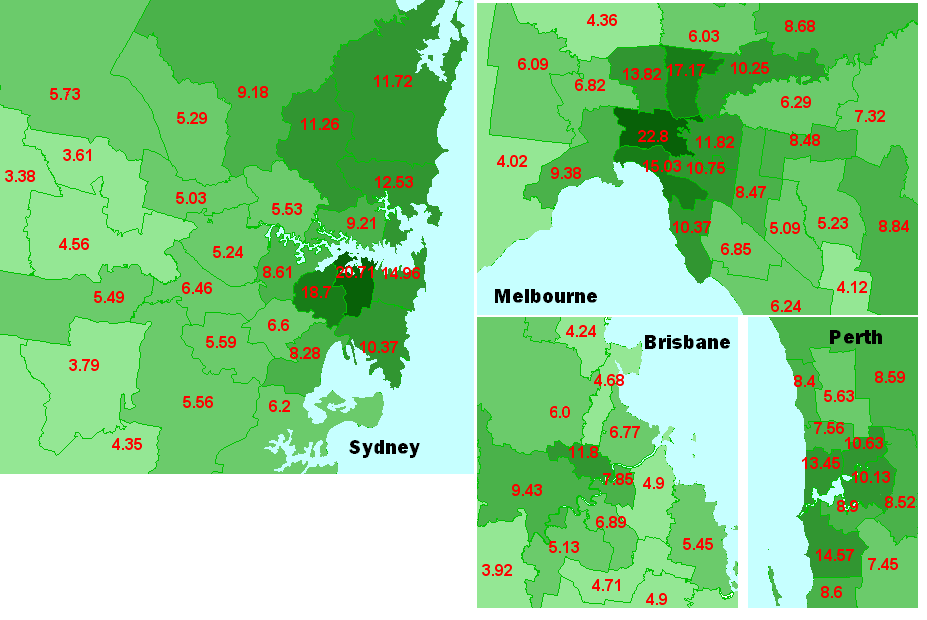 Percentage of first preference votes for the Australian Greens candidate in each Commonwealth electorate in Sydney, Melbourne, Brisbane and Perth, at the 2007 Federal Election